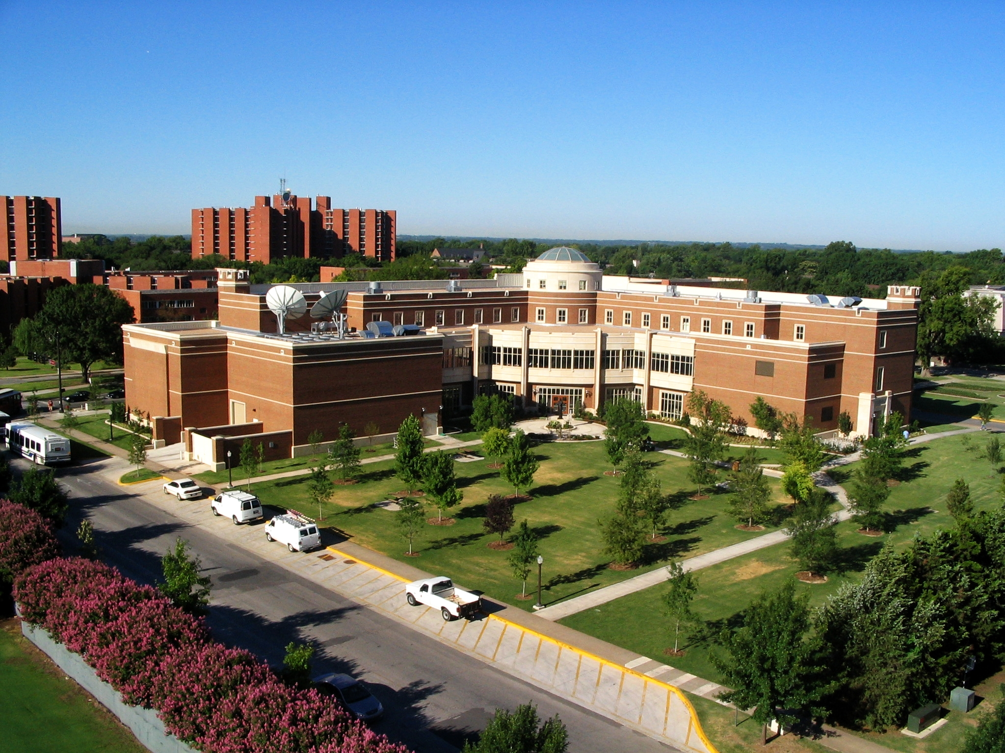 A view of the back of Gaylord Hall in Norman, OK.